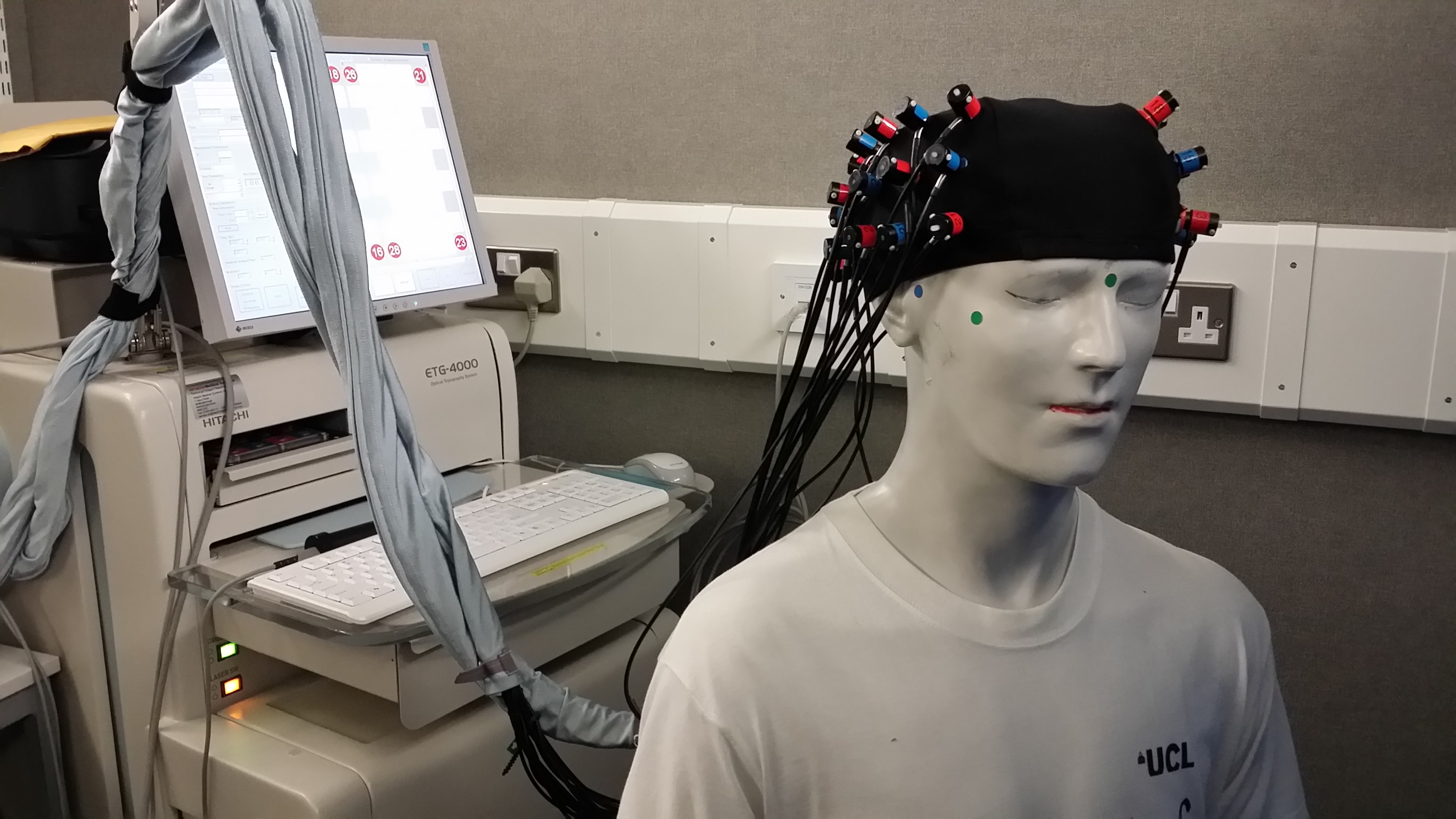 Functional near-infrared spectroscopy (fNIRS) - Hitachi ETG-4000 (2)